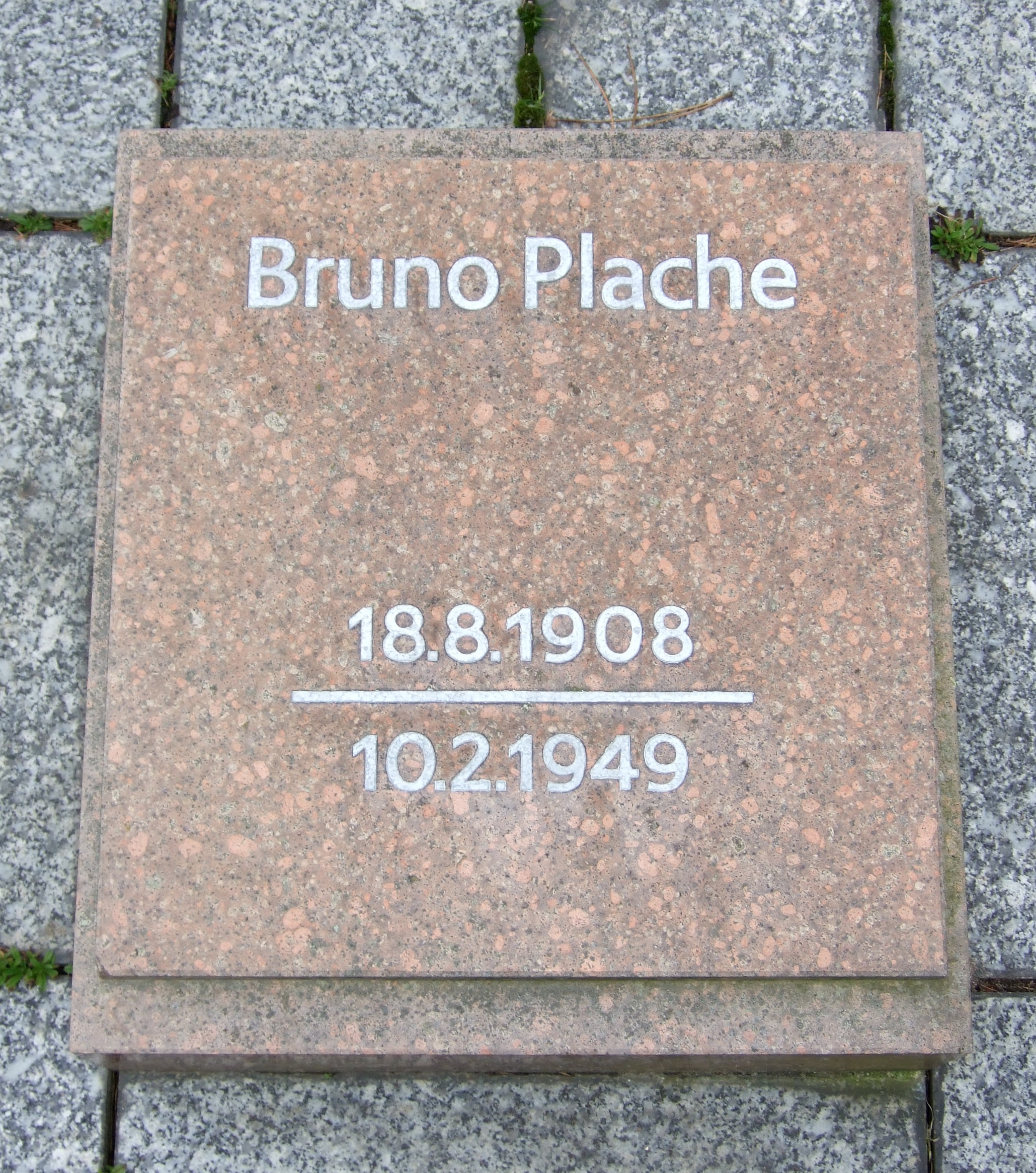 Gravestone of German antifaschist Bruno Plache at south cemetery Leipzig